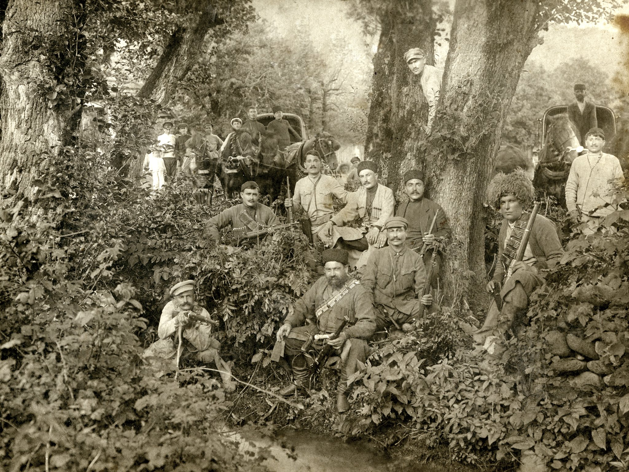 Georgian rebels known as "Oath of Fealty" (შეფიცულები) under the command of Kakutsa Cholokashvili Georgia Pre-1921 image, unknown author